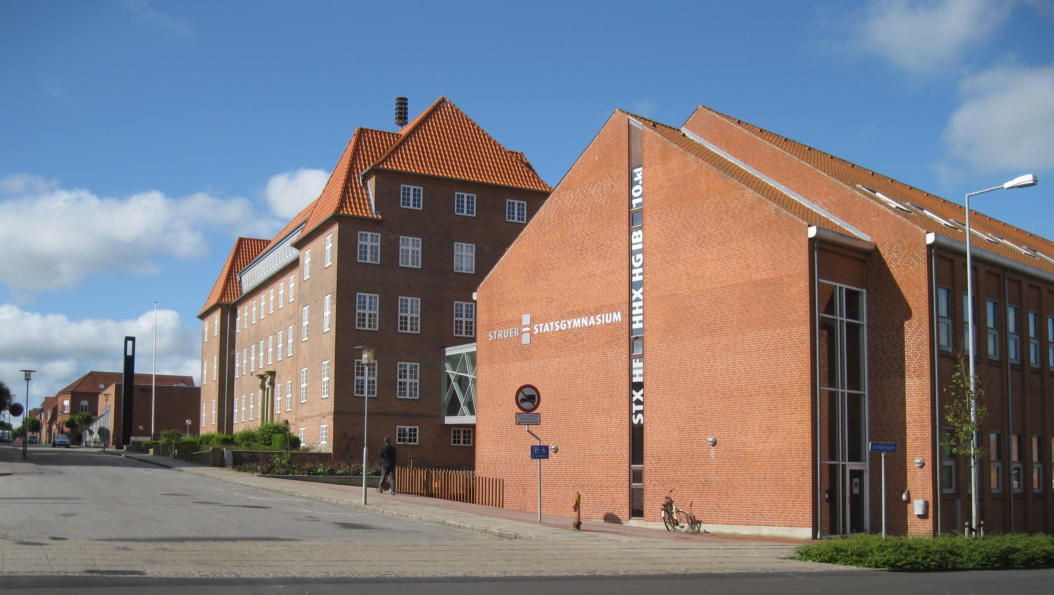 Struer High School, Denmark